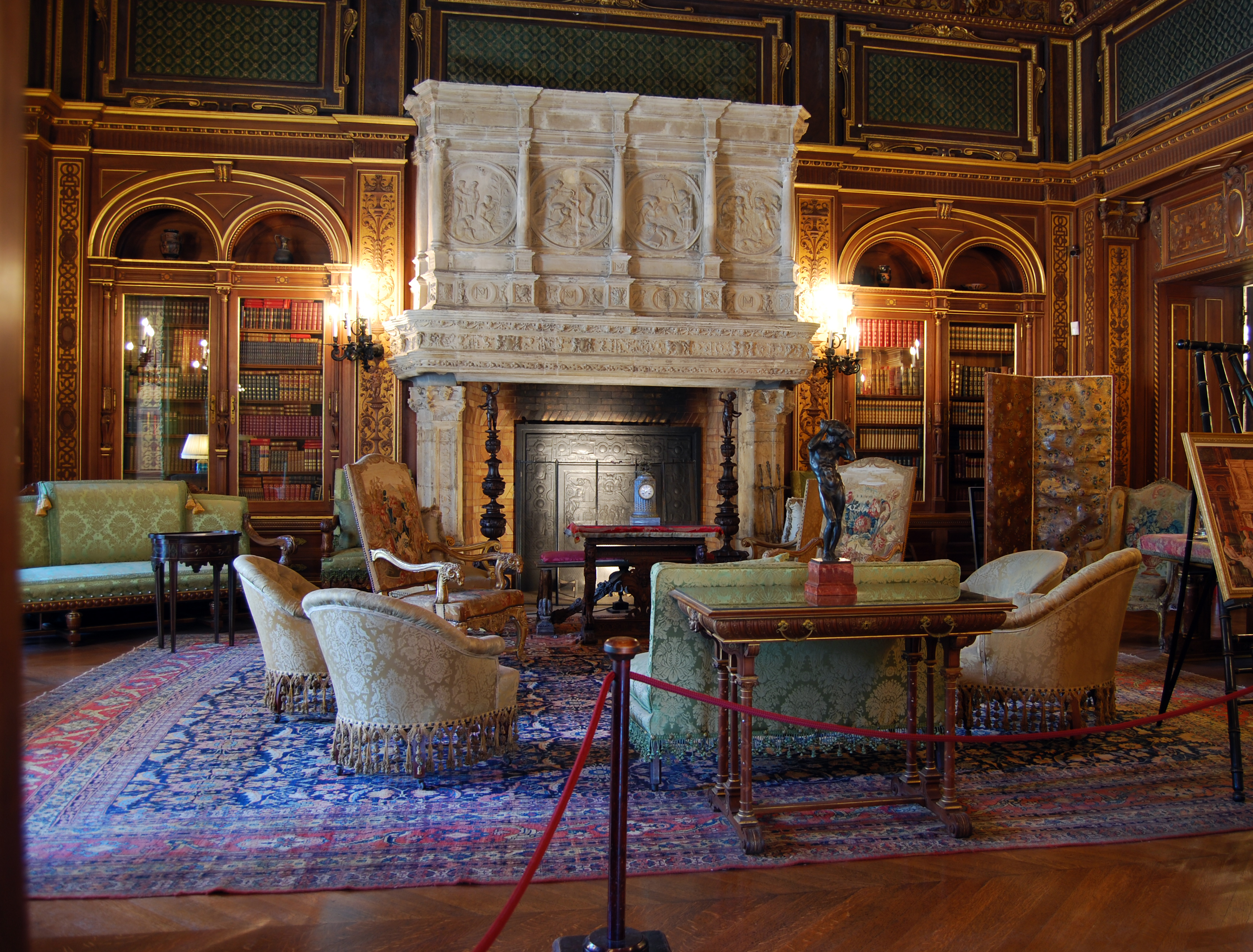 The library at The Breakers in Newport, Rhode Island, United States